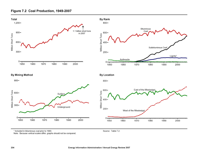 US Coal production since 1949